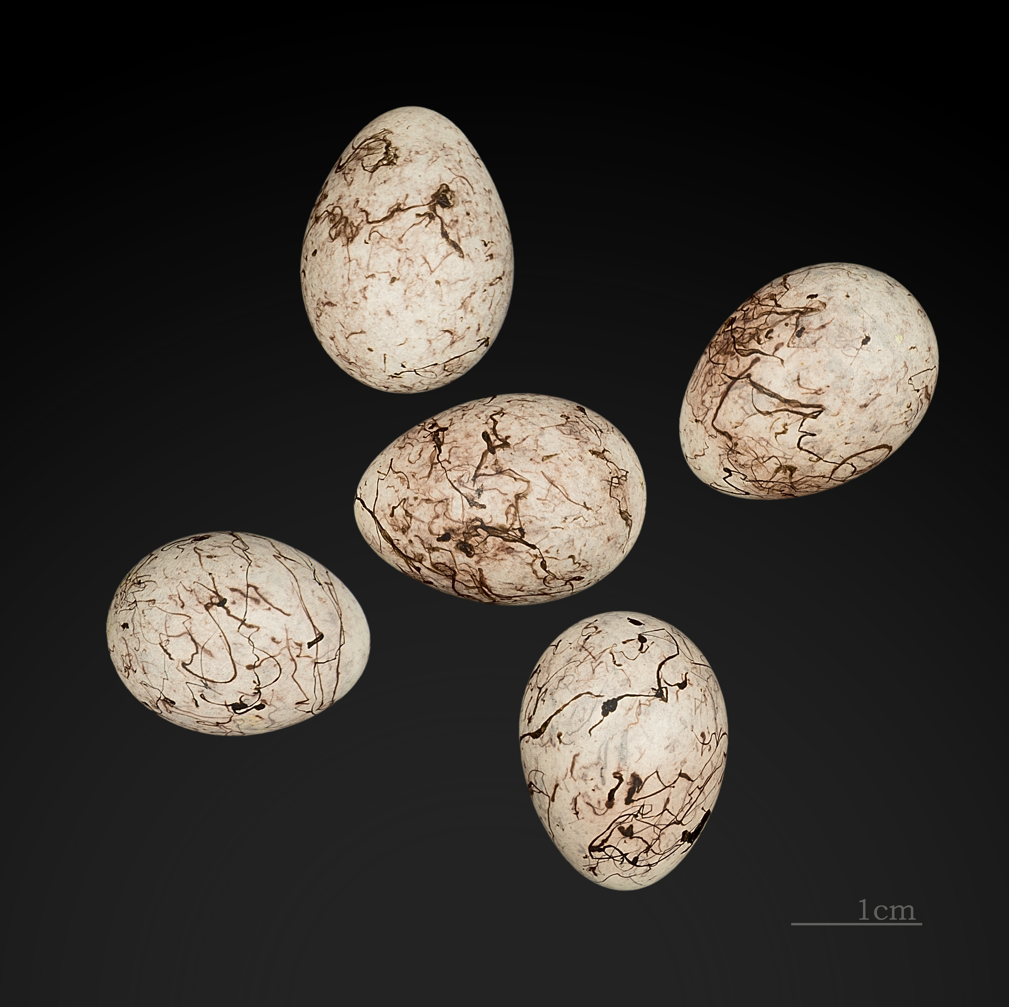 Egg of Yellowhammer. Collection of Jacques Perrin de Brichambaut.